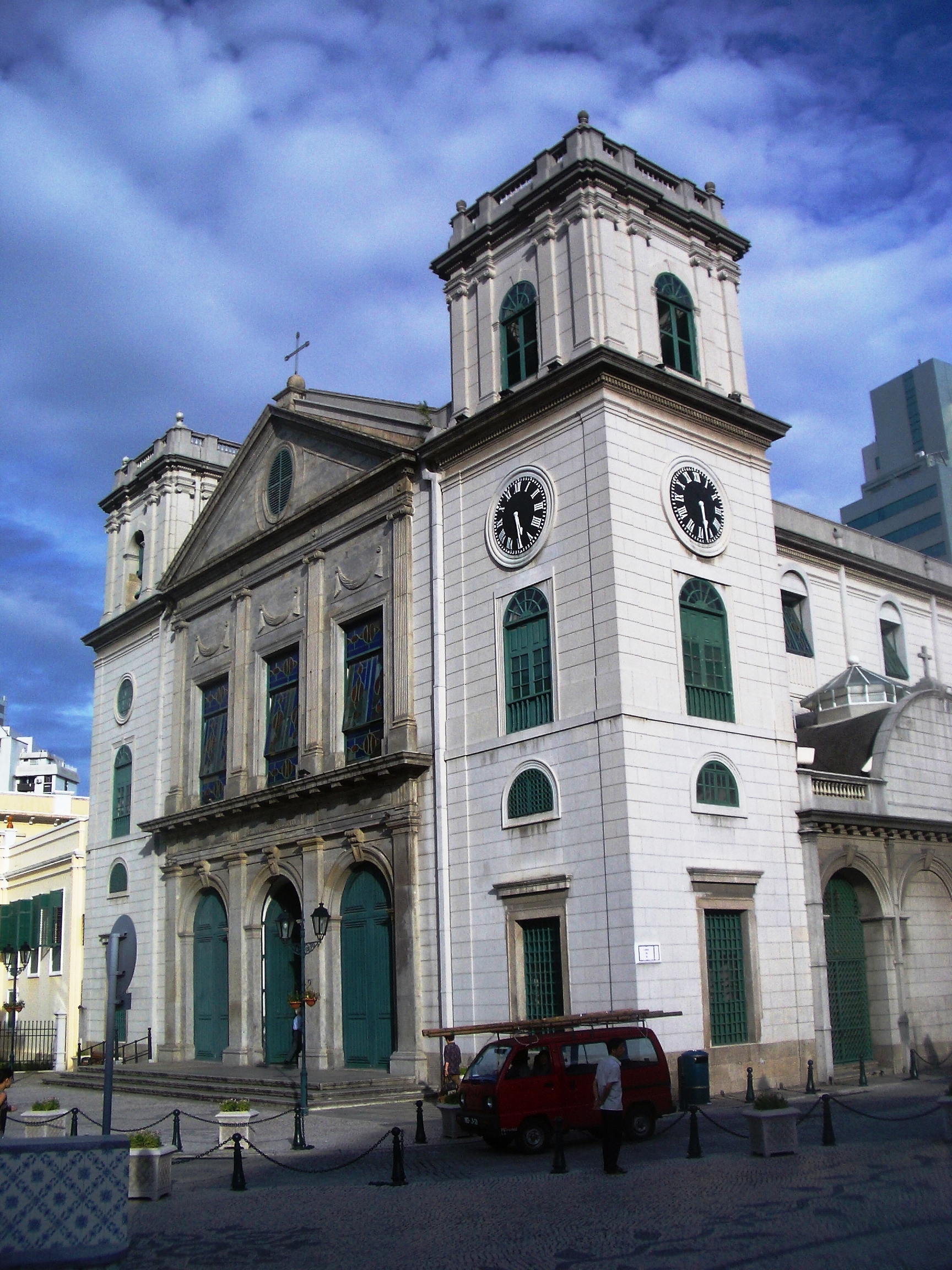 taken by me (whhalbert)